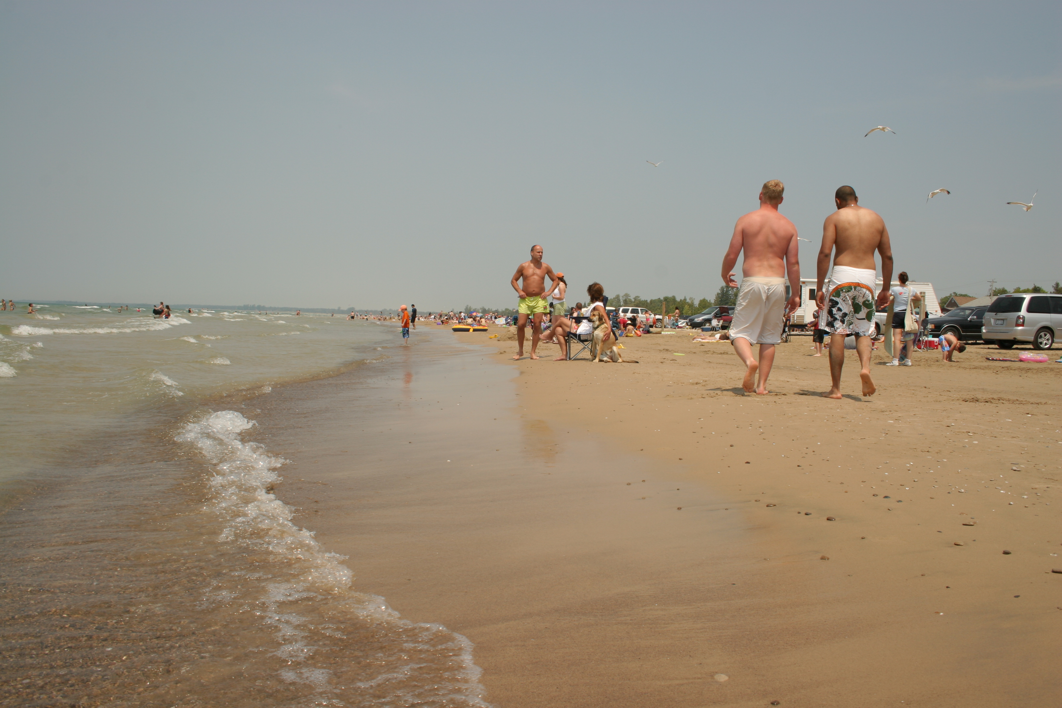 Sauble Beach – Voted the #1 Freshwater Beach in Canada!